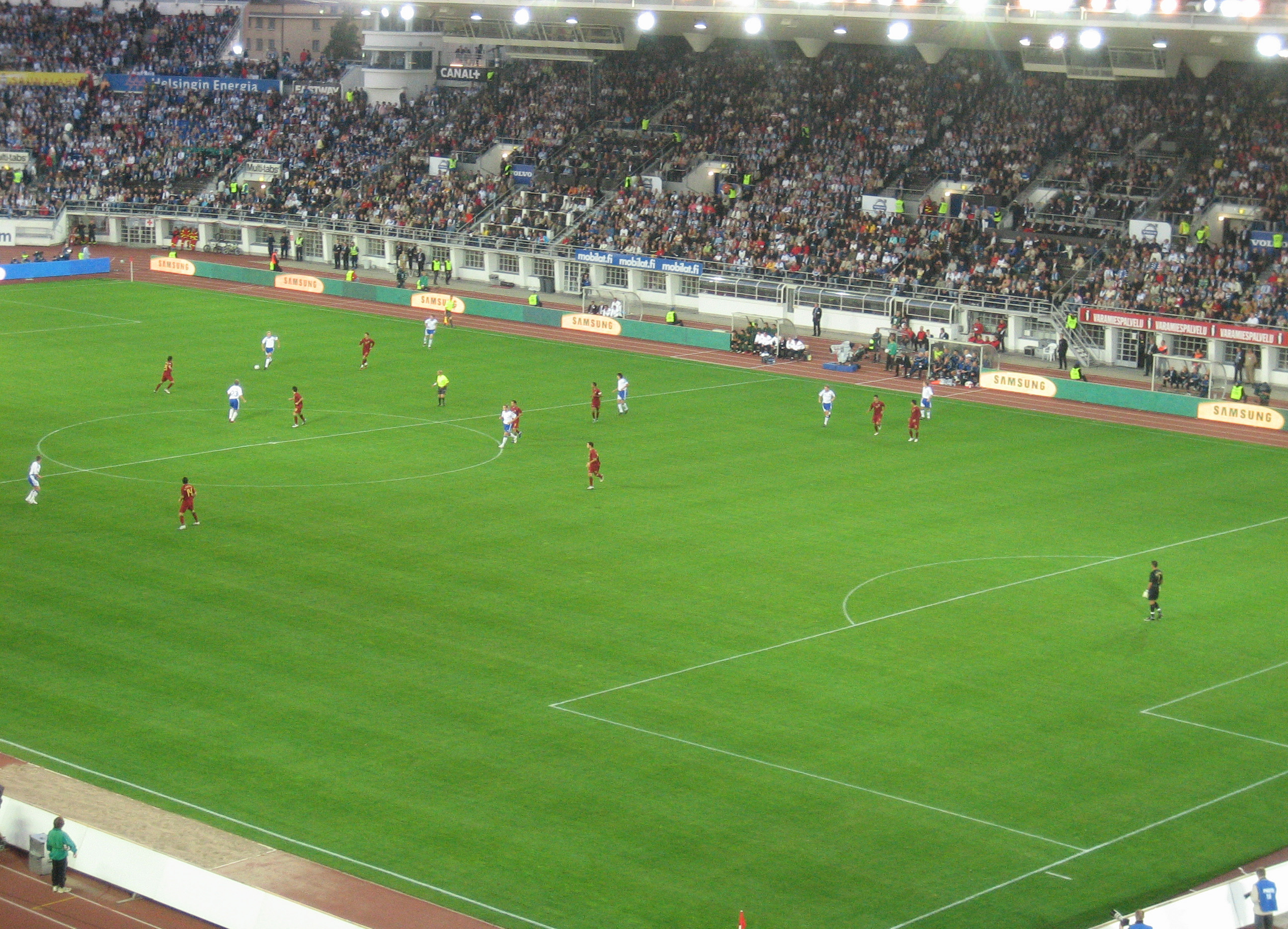 Finland - Portugal 06 Sept 2006, Olympiastadion